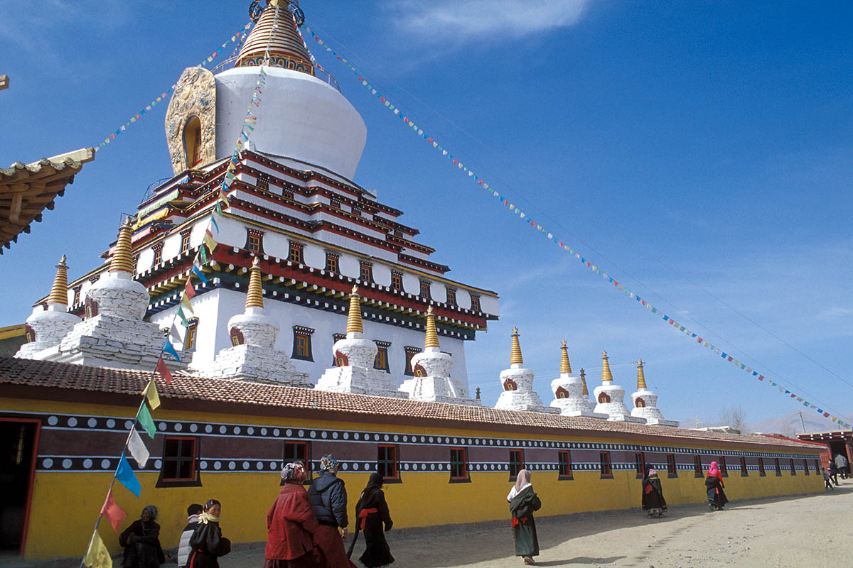 The great stupa at the monastery of Kirti Gompa — Gerdeng Monastery (Chinese: 格尔登寺; Chinese Pingyin: Ge'erdeng). It's measured 49 meters in height, 25 meters for each side at the base. Located in Ngawa County (Chinese: 阿坝; Chinese Pingyin: Aba). Kirti Gompa is the largest Tibetan Buddhist Monastery in Ngawa (Aba) Tibetan and Qiang Autonomous Prefecture, Sichuan Province, southwestern China.